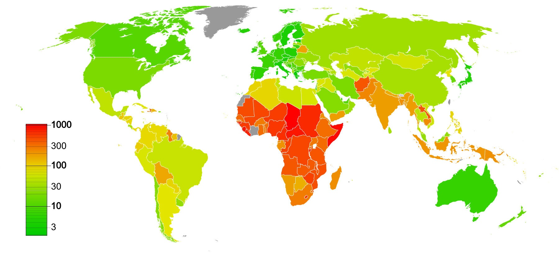 Maternal Mortality Rate worldwide, given as "the annual number of female deaths per 100,000 live births from any cause related to or aggravated by pregnancy or its management (excluding accidental or incidental causes). The MMR includes deaths during pregnancy, childbirth, or within 42 days of termination of pregnancy, irrespective of the duration and site of the pregnancy, for a specified year." Reference: Country Comparison: Maternal Mortality Rate in The CIA World Factbook. Date of Information: 2010